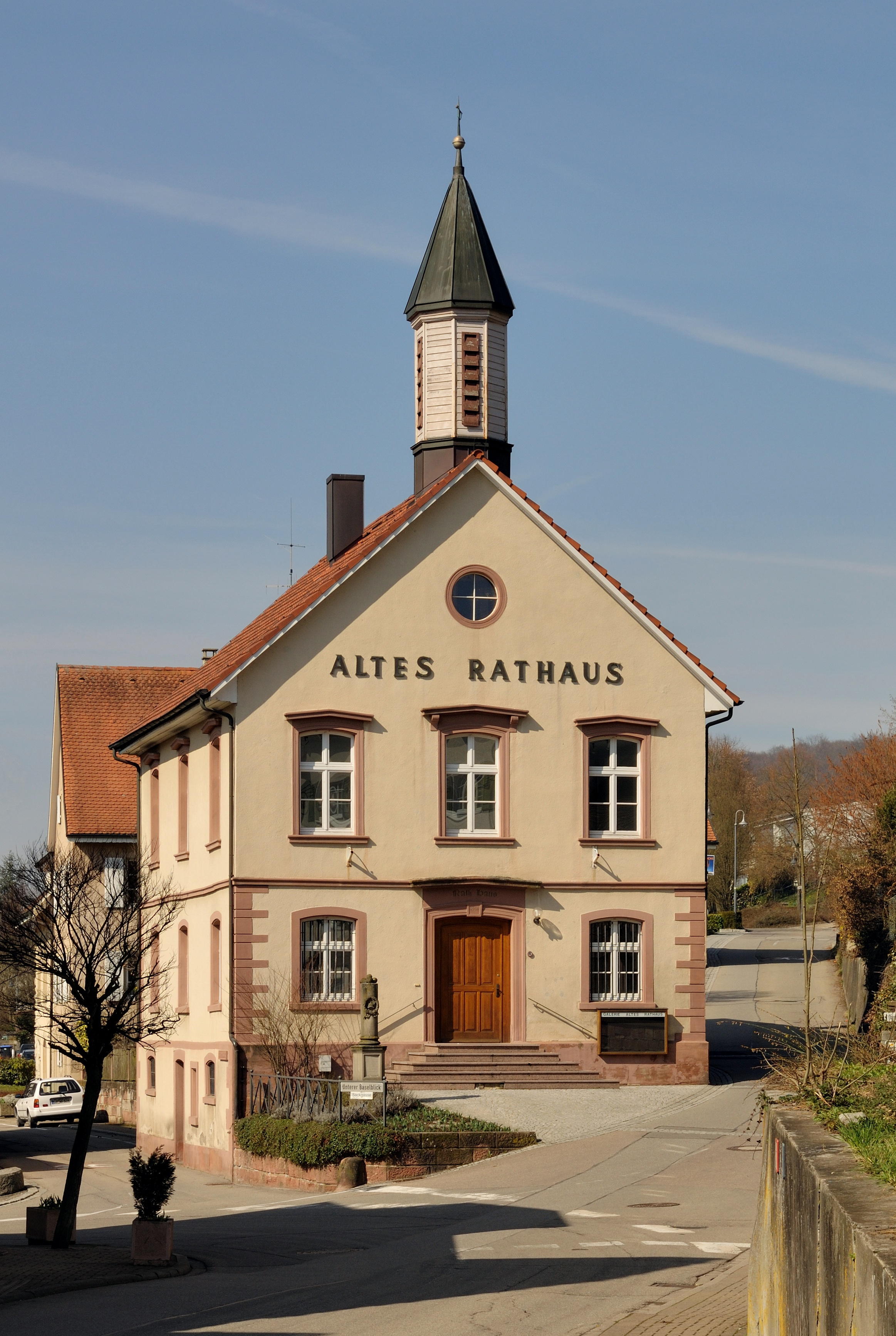 Inzlingen: Old City Hall